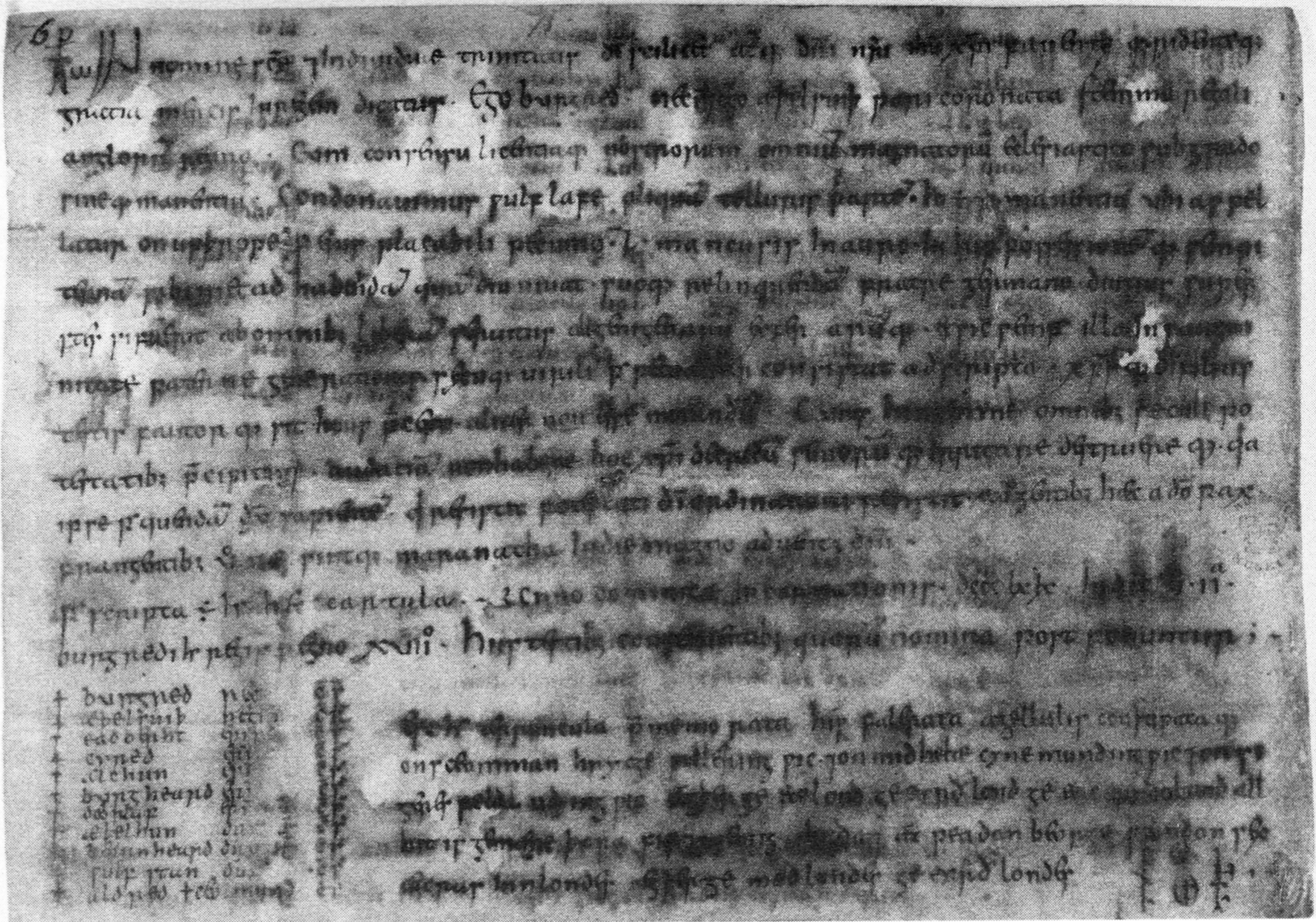 A charter of King Burgred of Mercia to Wulflaf, 869. British Library MS Cotton Augustine ii. 76.